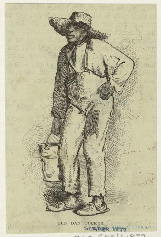 "Old Dan Tucker", from Scribner's Magazine, New York : Chas. Scribner's Sons, 1877. Black & white ; 10 x 7 cm. (3 3/4 x 2 1/2 in.). Written on mount: "April 1877 Chincoteague, Virginia".